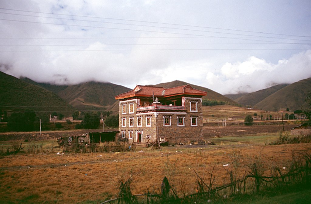 Litang in Sichuan province (China) – Tibetan house in the road from Kangding to Litang